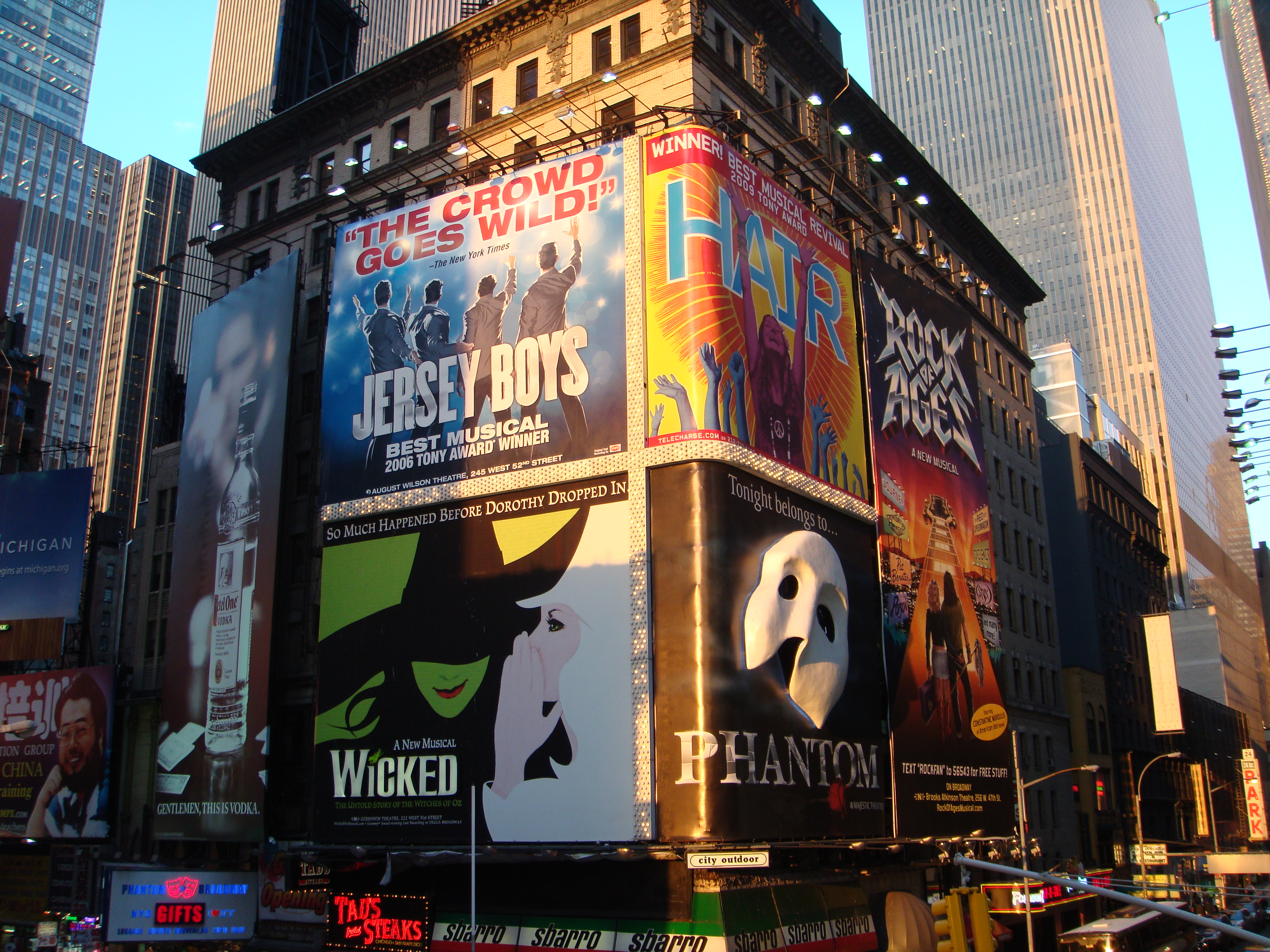 Theater District